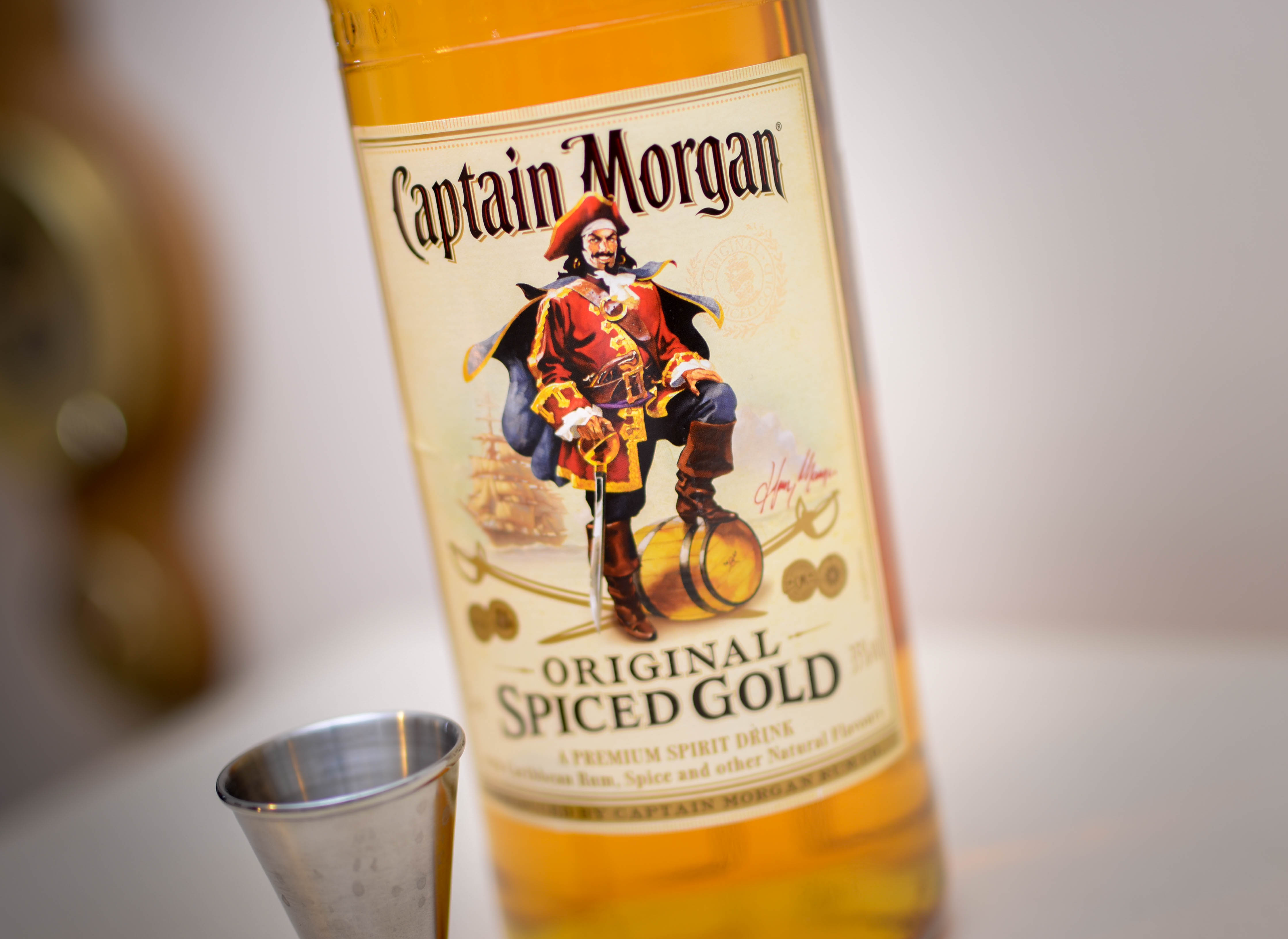 Rum Captain Morgan Spiced bottle, 1L